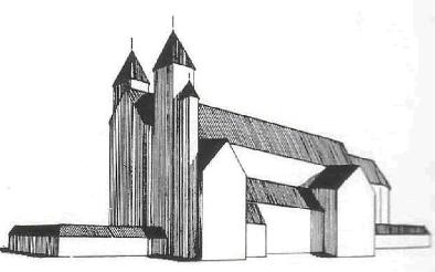 Liège, Belgium: Reconstruction drawing of the 1015 cathedral